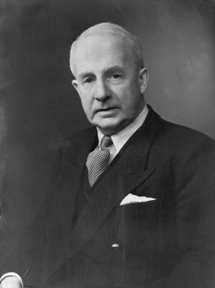 Paal Olav Berg (18 January 1873 – 24 May 1968), born in Hammerfest,[1] was a Norwegian politician for the Liberal Party. He was Minister of Social Affairs 1919-1920, and Minister of Justice 1924-1926. He was the 12th Chief Justice of the Supreme Court from 1929 to 1946.